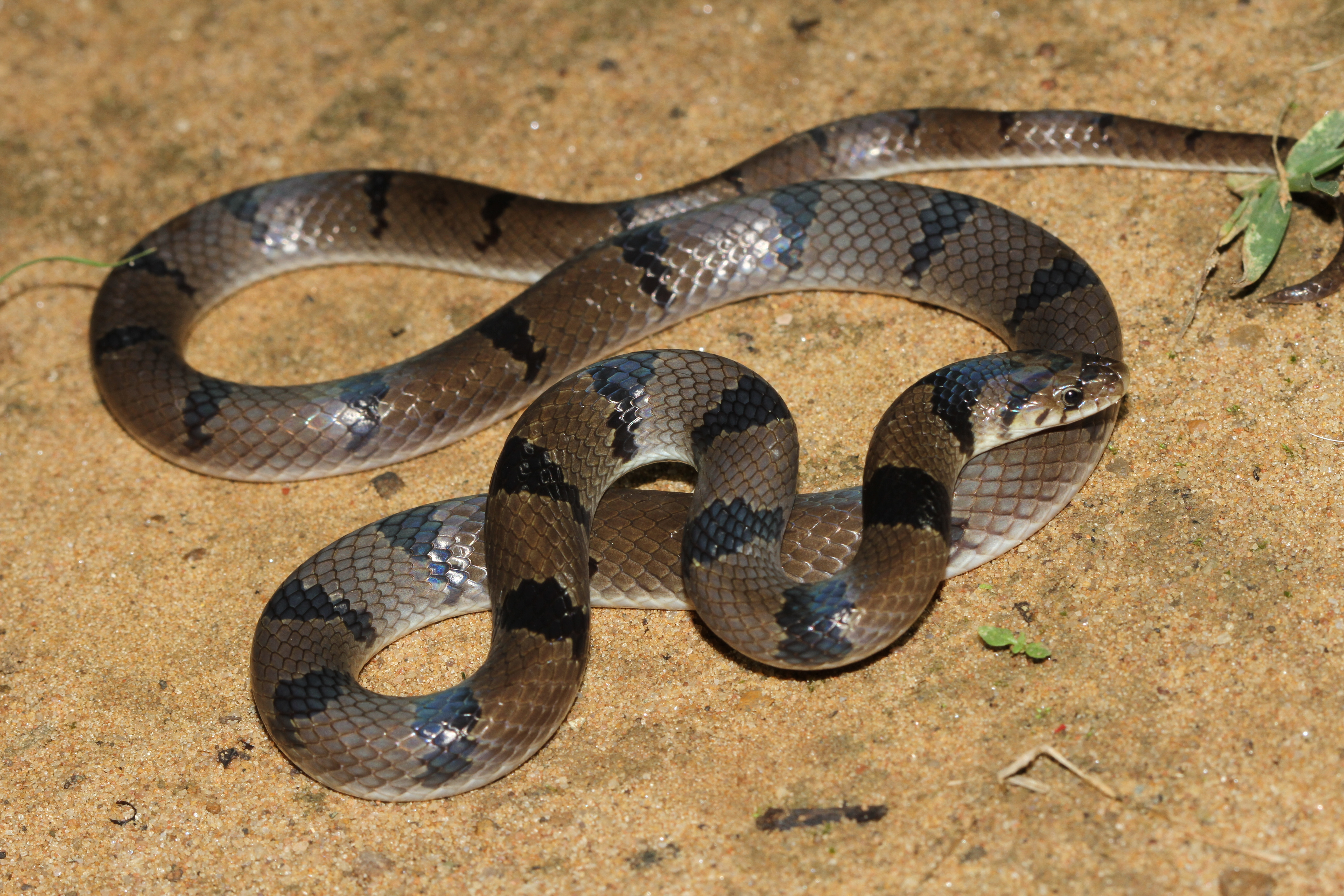 Reptiles from India